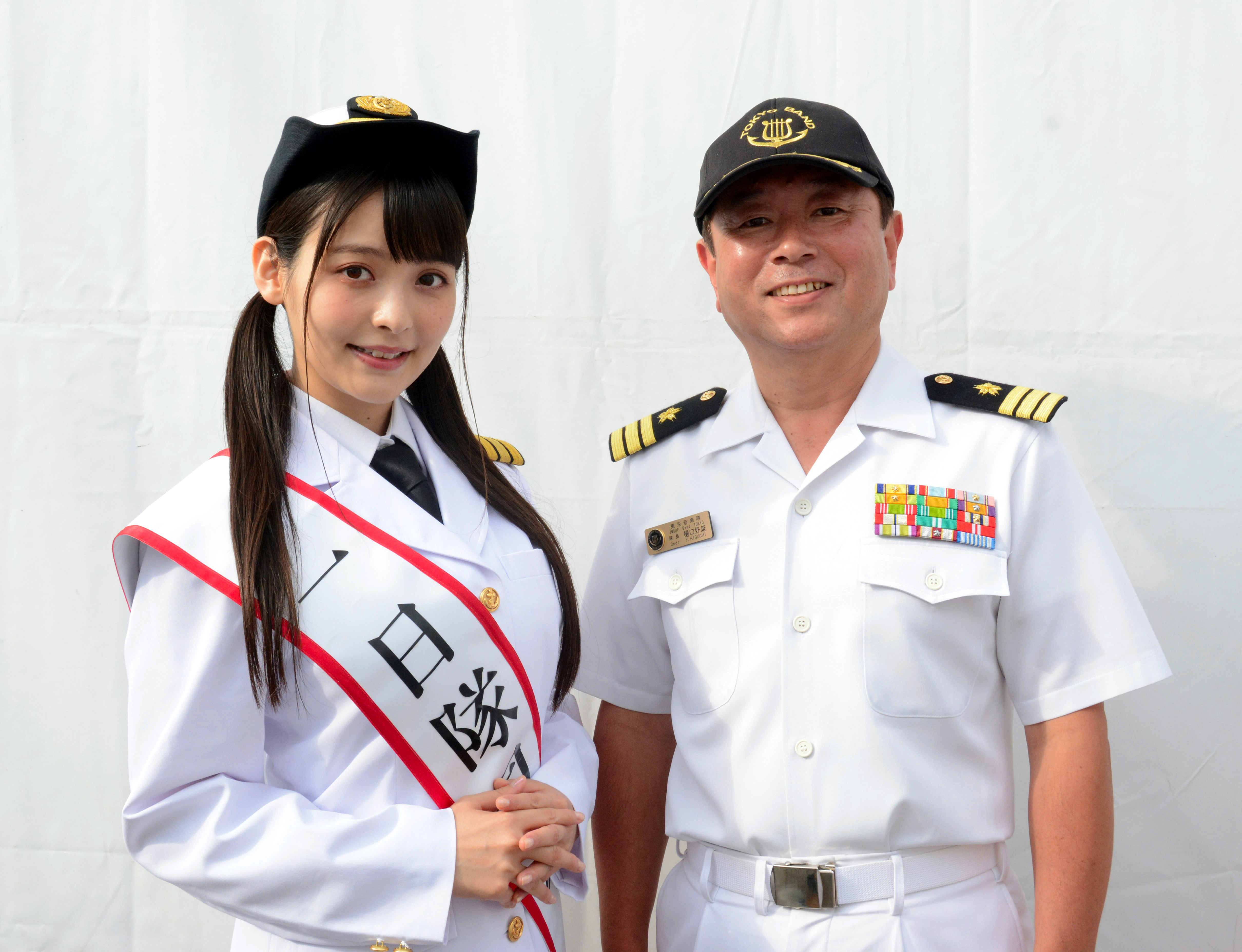 Sumire Uesaka, Honorary Commander of the Escort Division 1 for one day, Escort Flotilla 1, Fleet Escort Force, Self Defense Fleet, Maritime Self-Defense Force, met Yoshio Higuchi, Band Master of the Maritime Self-Defense Force Band Tōkyō, at the Fleet Week in Yokohama City, Kanagawa Prefecture on October 6, 2019.